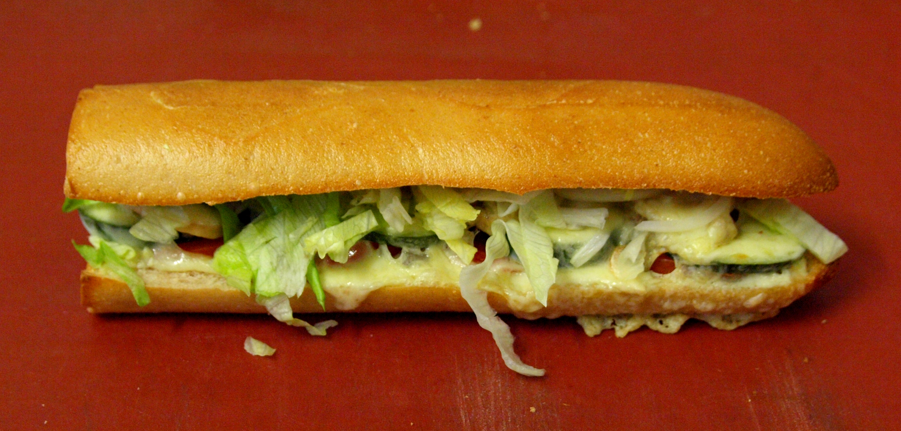 Croque as served in Hamburg, Germany since the 1970's. Here a vegetarian croque. A baguette , tomatoes, cucumber slices, mushrooms baked with cheese and fresh salad and onions, but without remoulade.